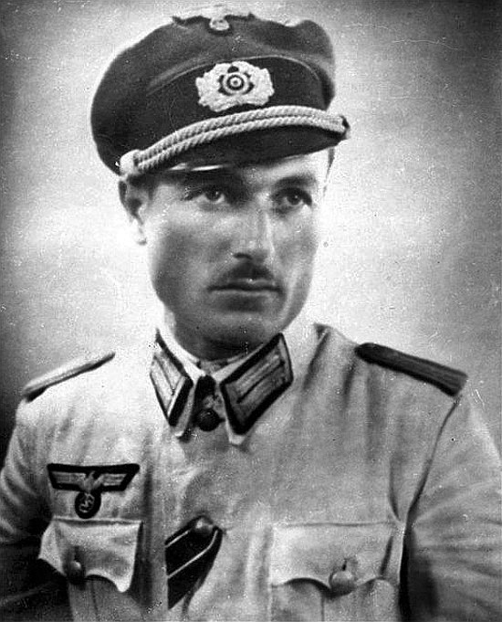 Shalva Loladze, a Georgian soldier of the German German Wehrmacht, who led the Georgian uprising on Texel